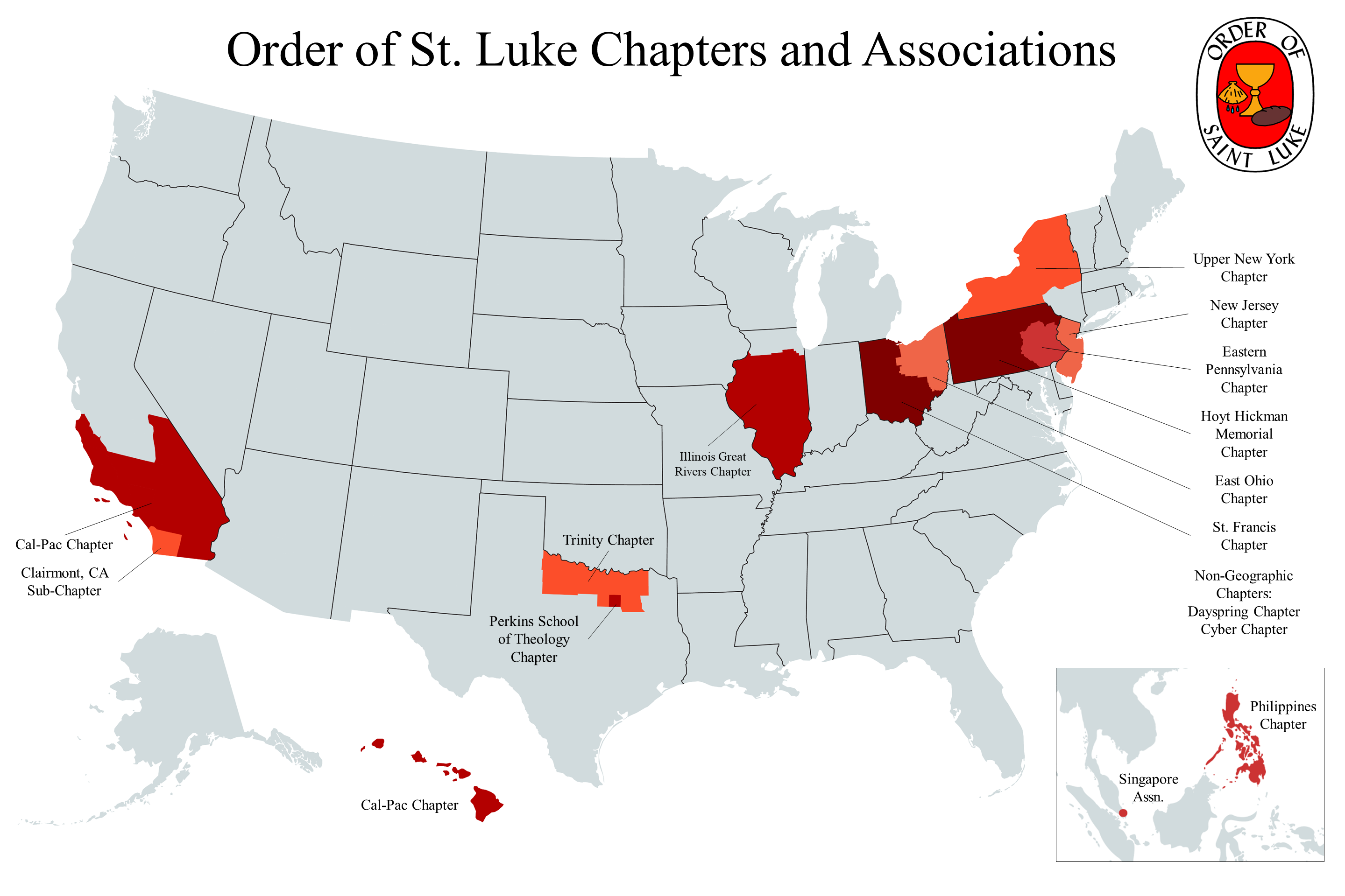 A map of the chapters of the Order of St. Luke as of April 2020